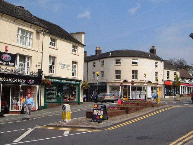 Red Lion Square, Newcastle-Under-Lyme, near to Newcastle-Under-Lyme, Staffordshire, Great Britain. The north corner of the square, with the end of Church Street to the left, and High Street contuing round the corner to the left.